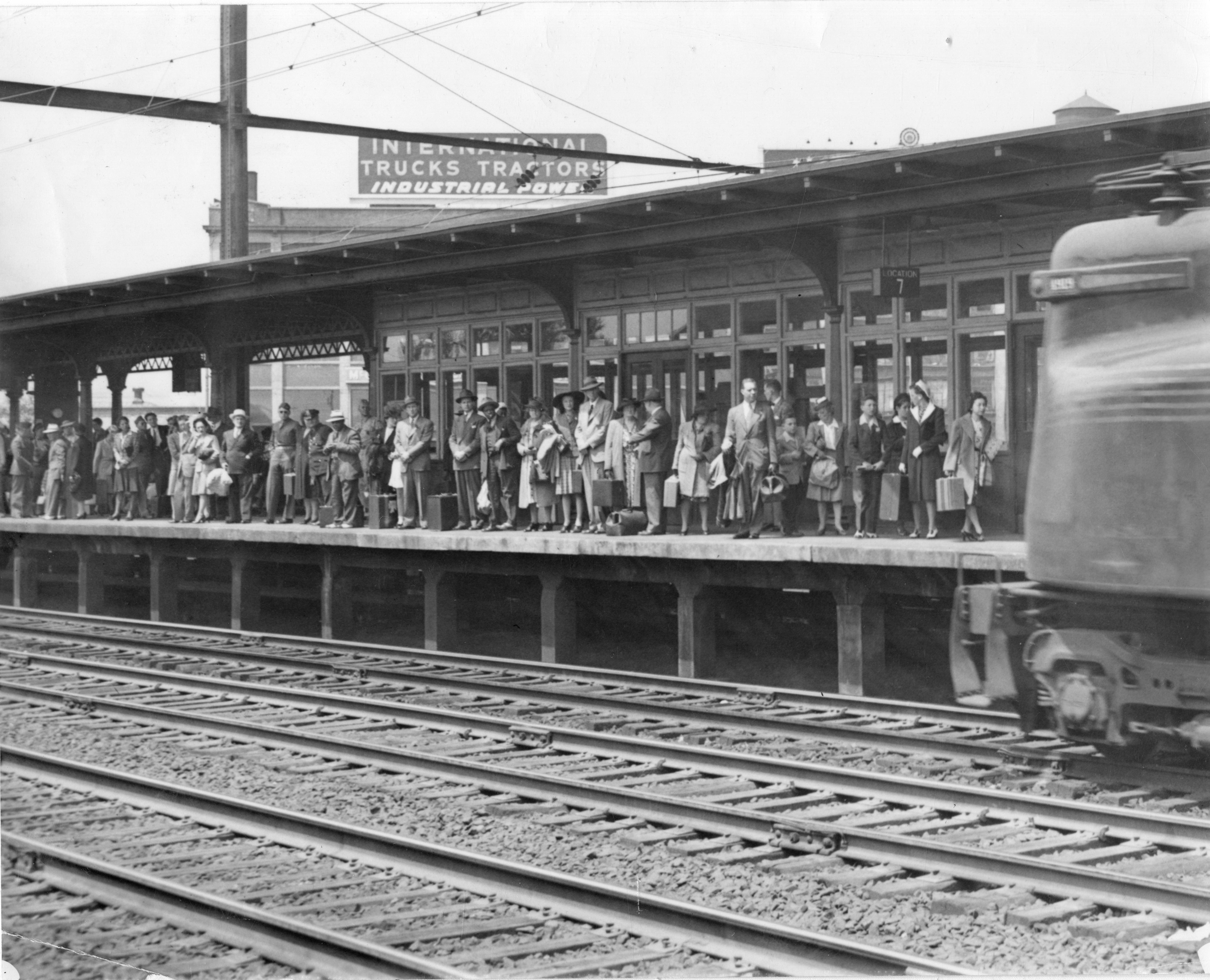 A PRR GG1 locomotive leads a train into North Philadelphia station (misidentified as North Broad in the source) in May 1943